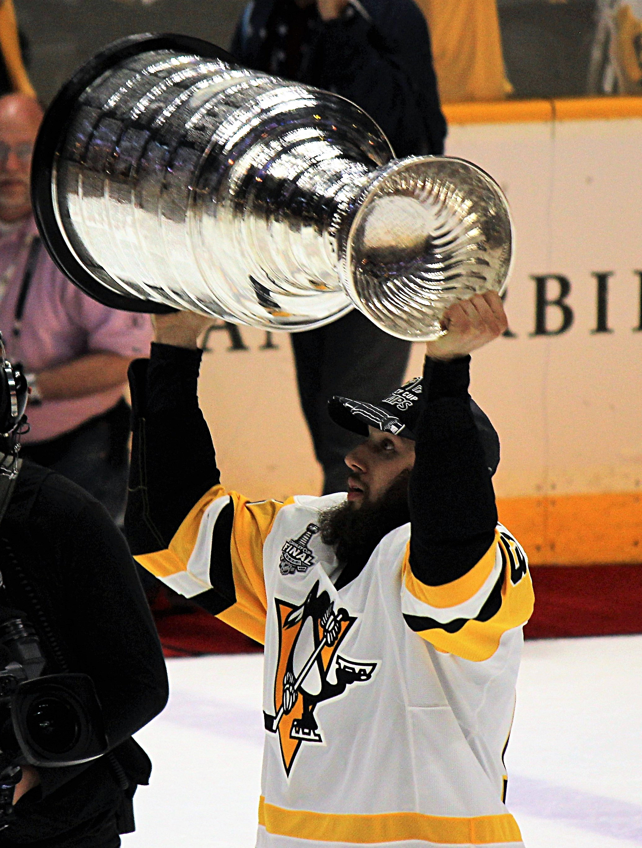 Pittsburgh Penguins forward Nick Bonino raises the Stanley Cup following the Penguins victory over the Predators, June 11, 2017, at Bridgestone Arena in Nashville, TN.